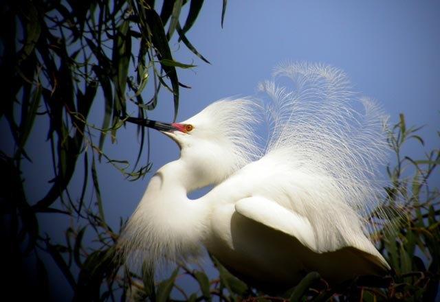 Snowy Egret (Egretta thula) in full breeding plumage. The striking color of the lores does not last long, and seems to occur at the very peak of the mating hormonal surge. West Ninth Street colony, Santa Rosa, California. The birds are nesting in exotic Eucalyptus trees, in the median strip of a busy road in a residential district of the city!